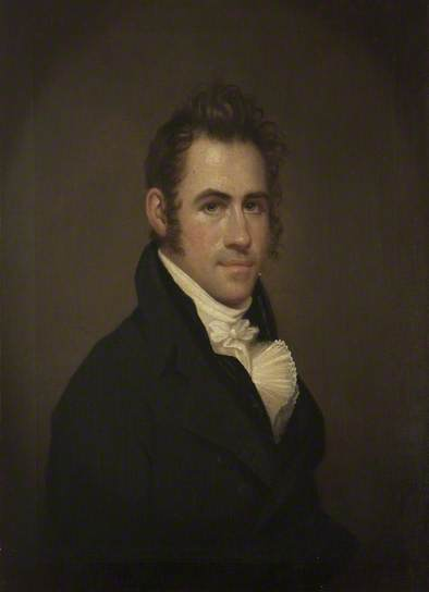 John Paine Cushman, New York Judge and Congressman